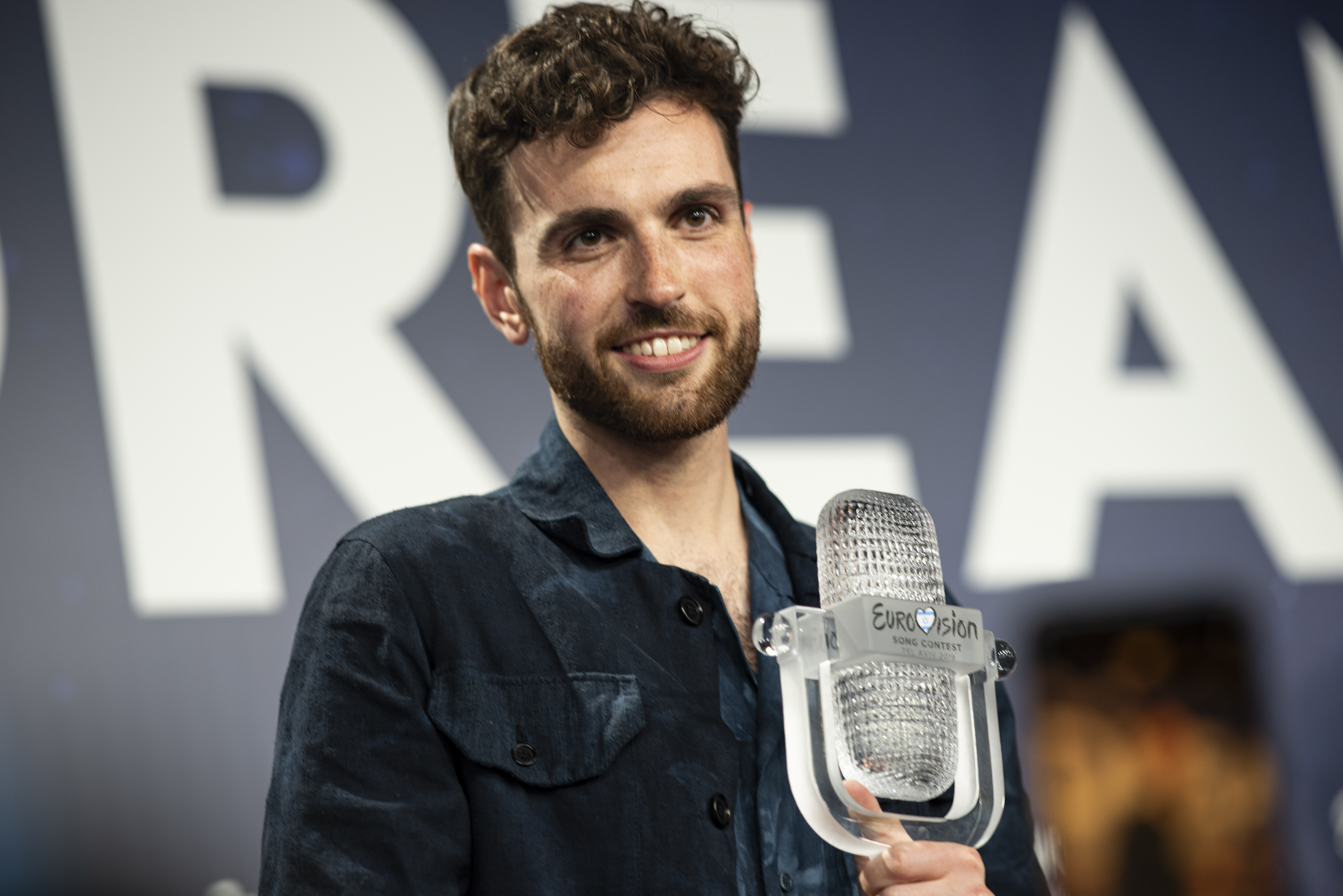 Duncan Laurence with the 2019 Eurovision Trophy